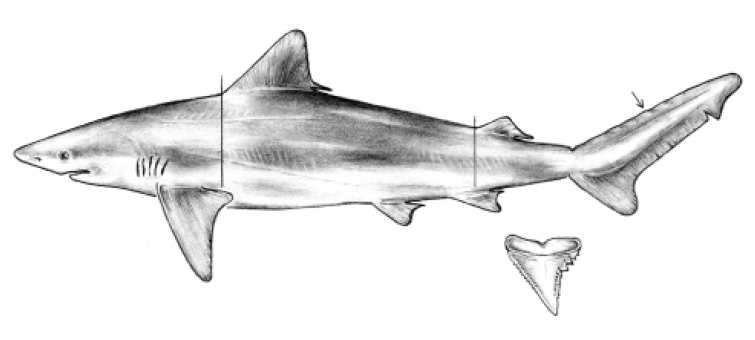 Smalltail shark (Carcharhinus porosus), from Grace, M. (2001). "Field Guide to Requiem Sharks (Elasmobranchiomorphi: Carcharhinidae) of the Western North Atlantic". NOAA Technical Report NMFS 153.